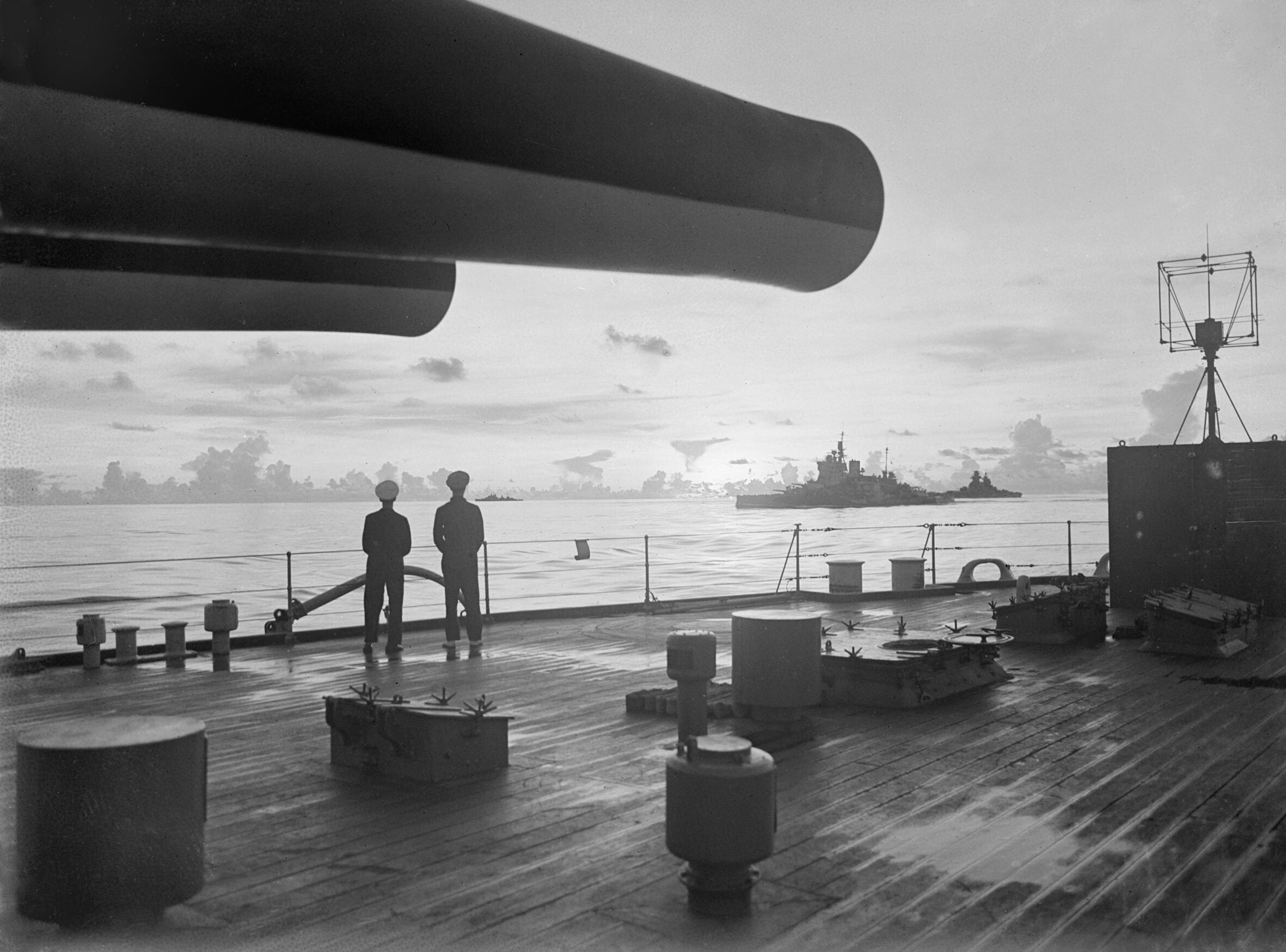 The Royal Navy during the Second World War From under the 15 inch guns of HMS QUEEN ELIZABETH, HMS VALIANT and FFS RICHELIEU can be seen in the light of a sinking sun.